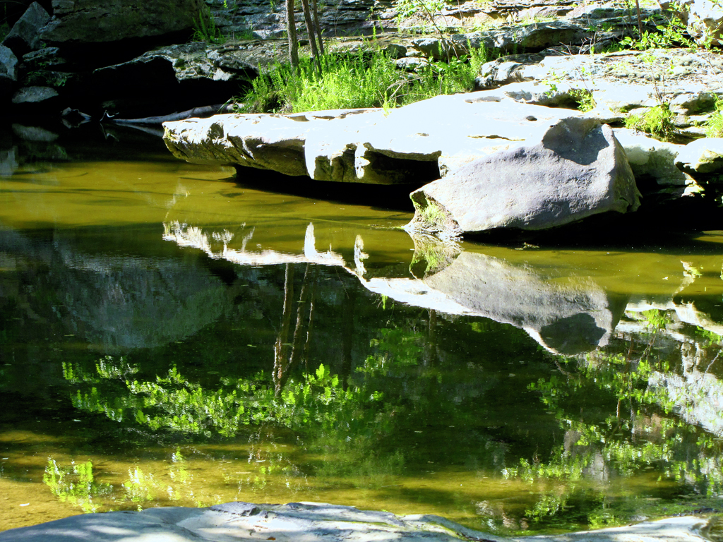 Rock formation in Piney Creek Ravine southern Illinois